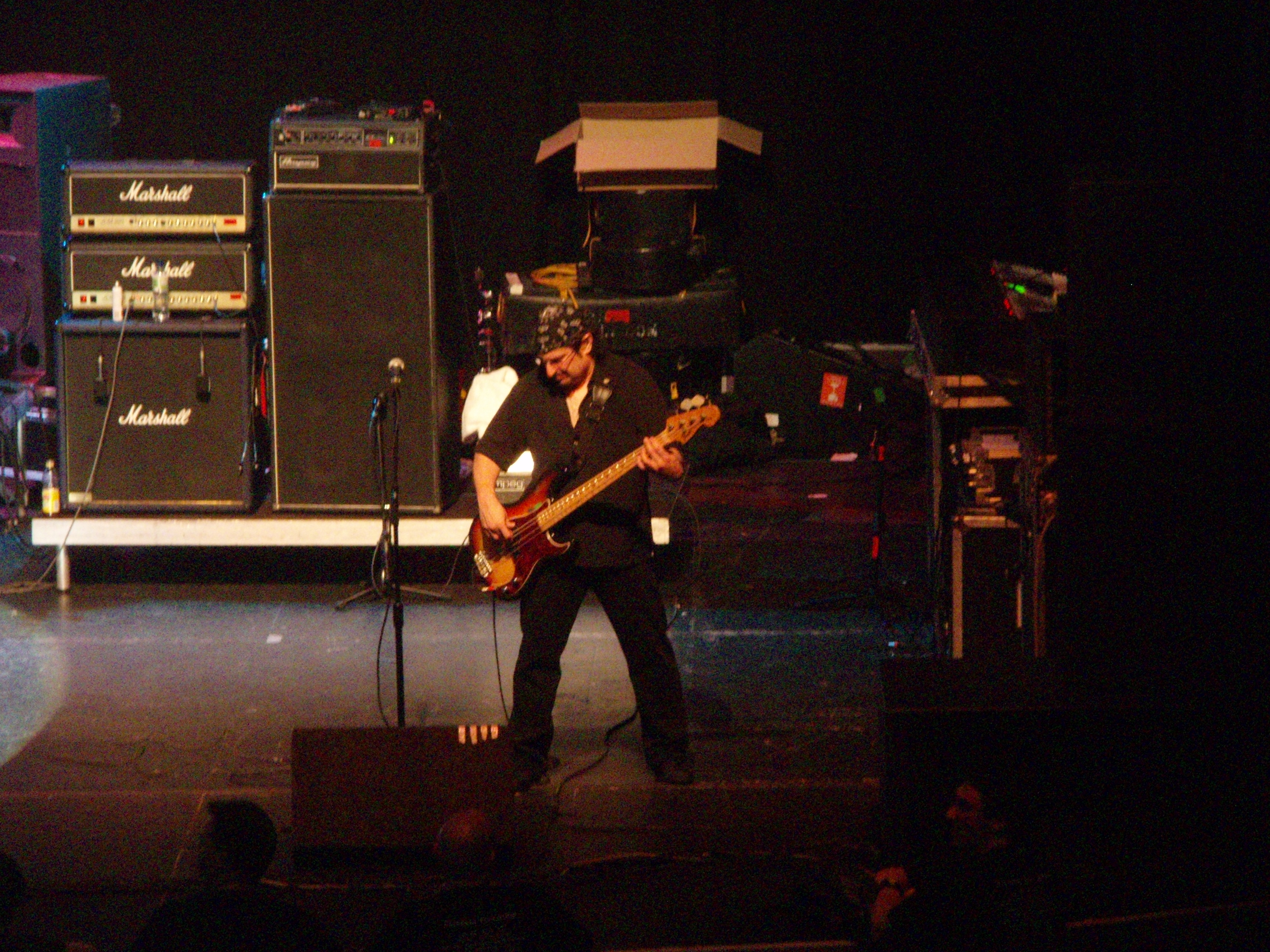 Also the current bass player for Queen.